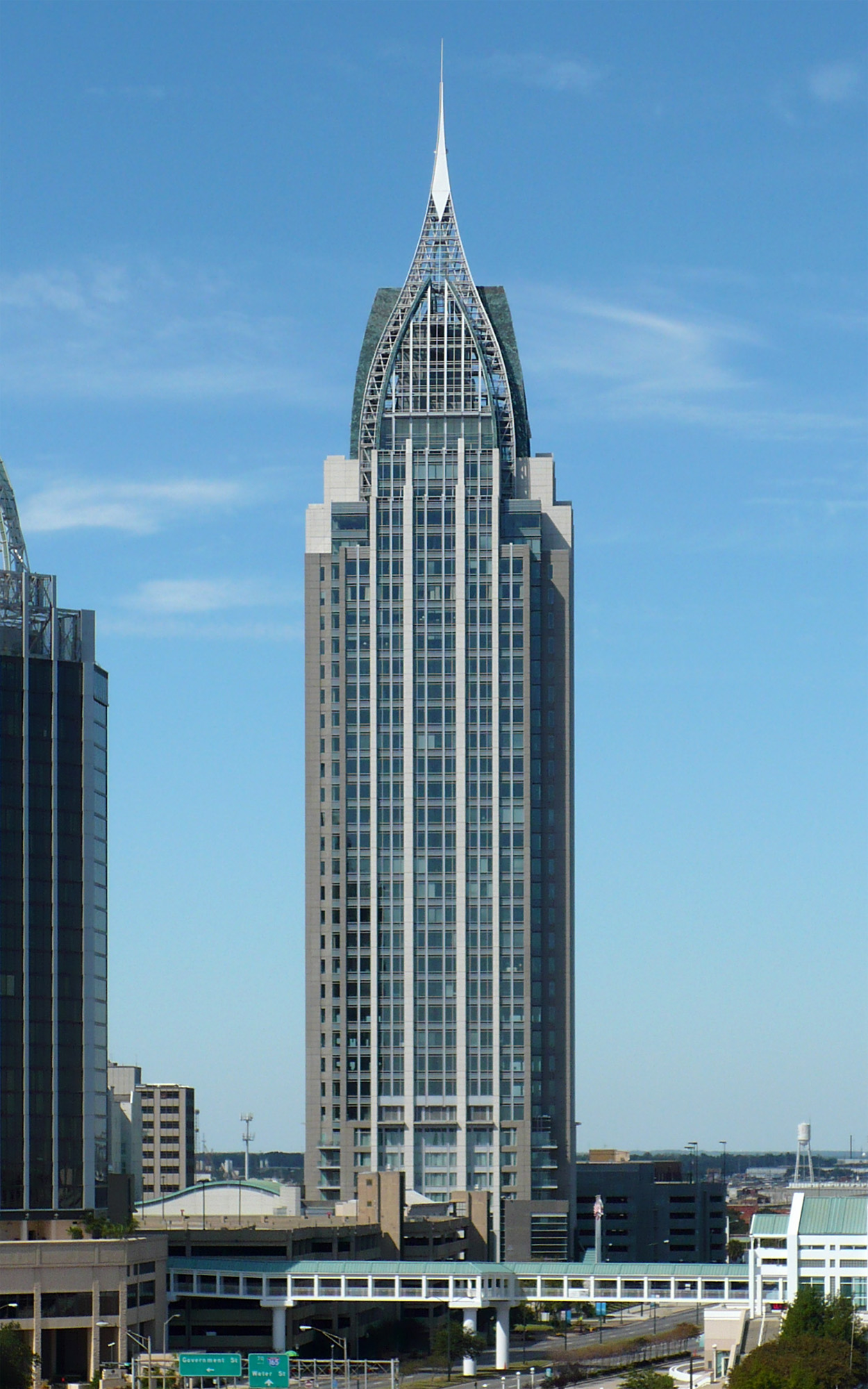 View of the RSA Battle House Tower in Mobile, Alabama. Taken from onboard the MS Holiday.